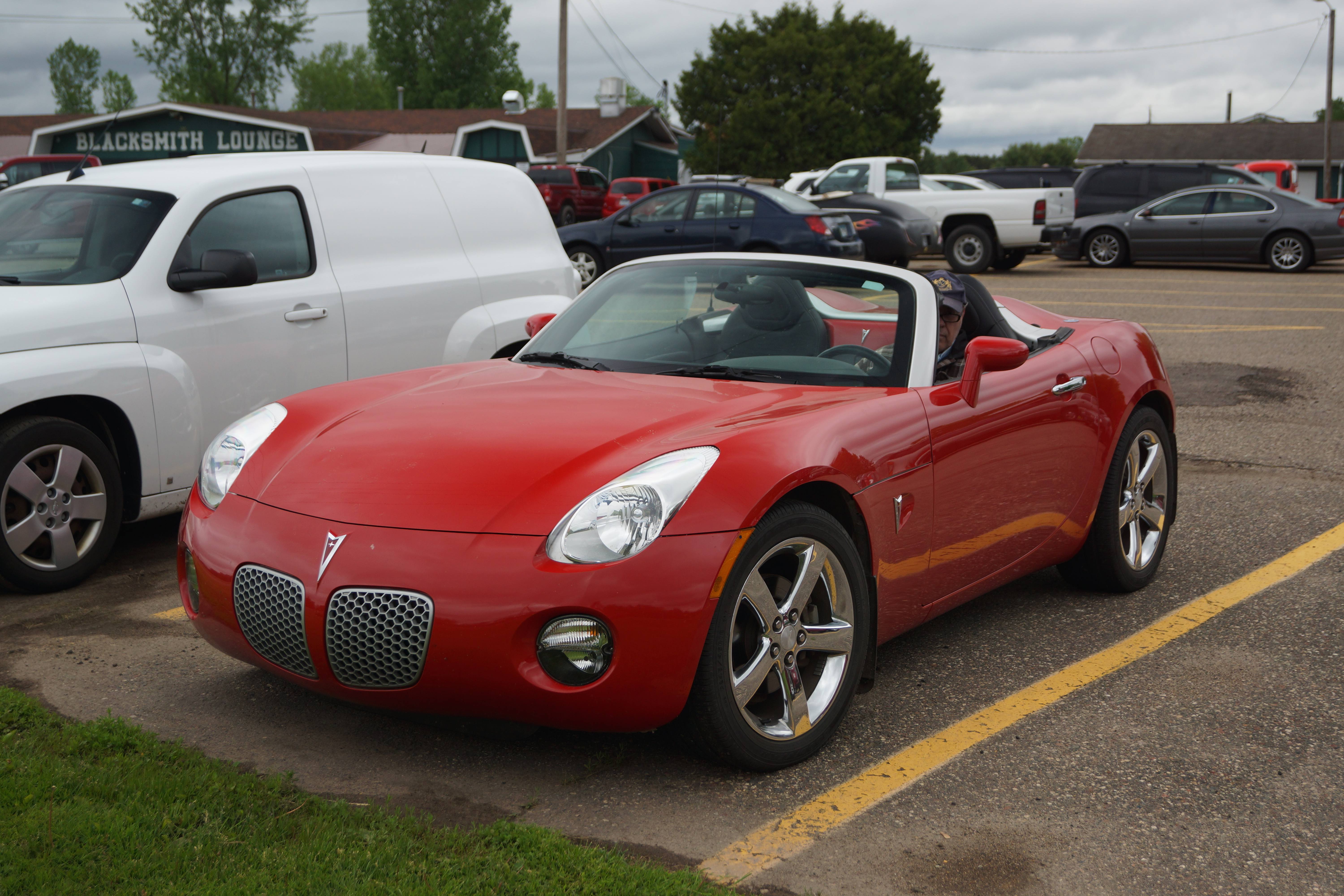 Studebaker Drivers Club North Star Chapter 43nd Annual 2017 Memorial Day Car Show Blacksmith Lounge Hugo, Minnesota ******** Click here for more car pictures at my Flickr site. Or here for my Car Crazy Tumblr site. Or on Twitter @DVS1mn.